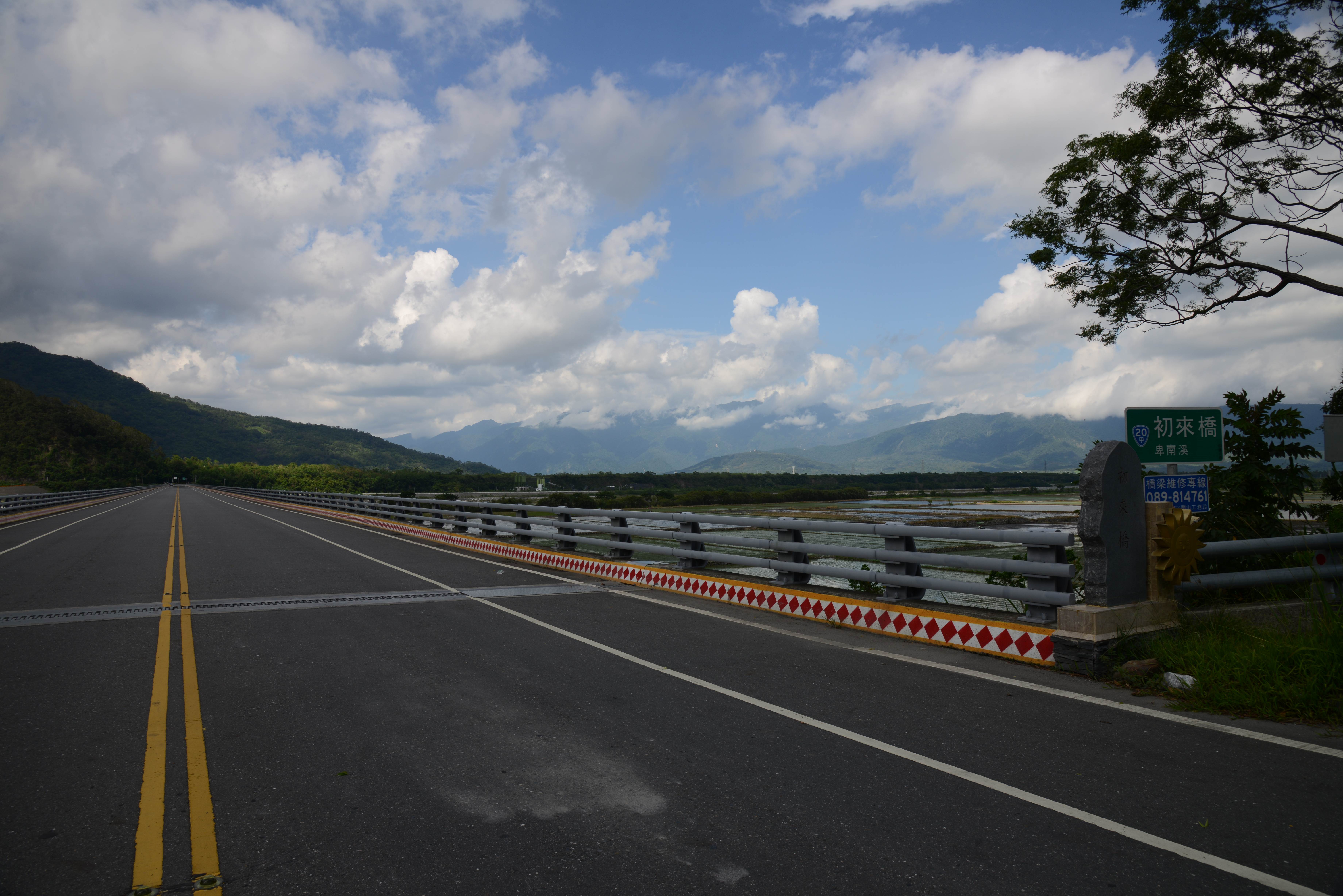 Chulai Bridge with Coast Mountain Range in the background.